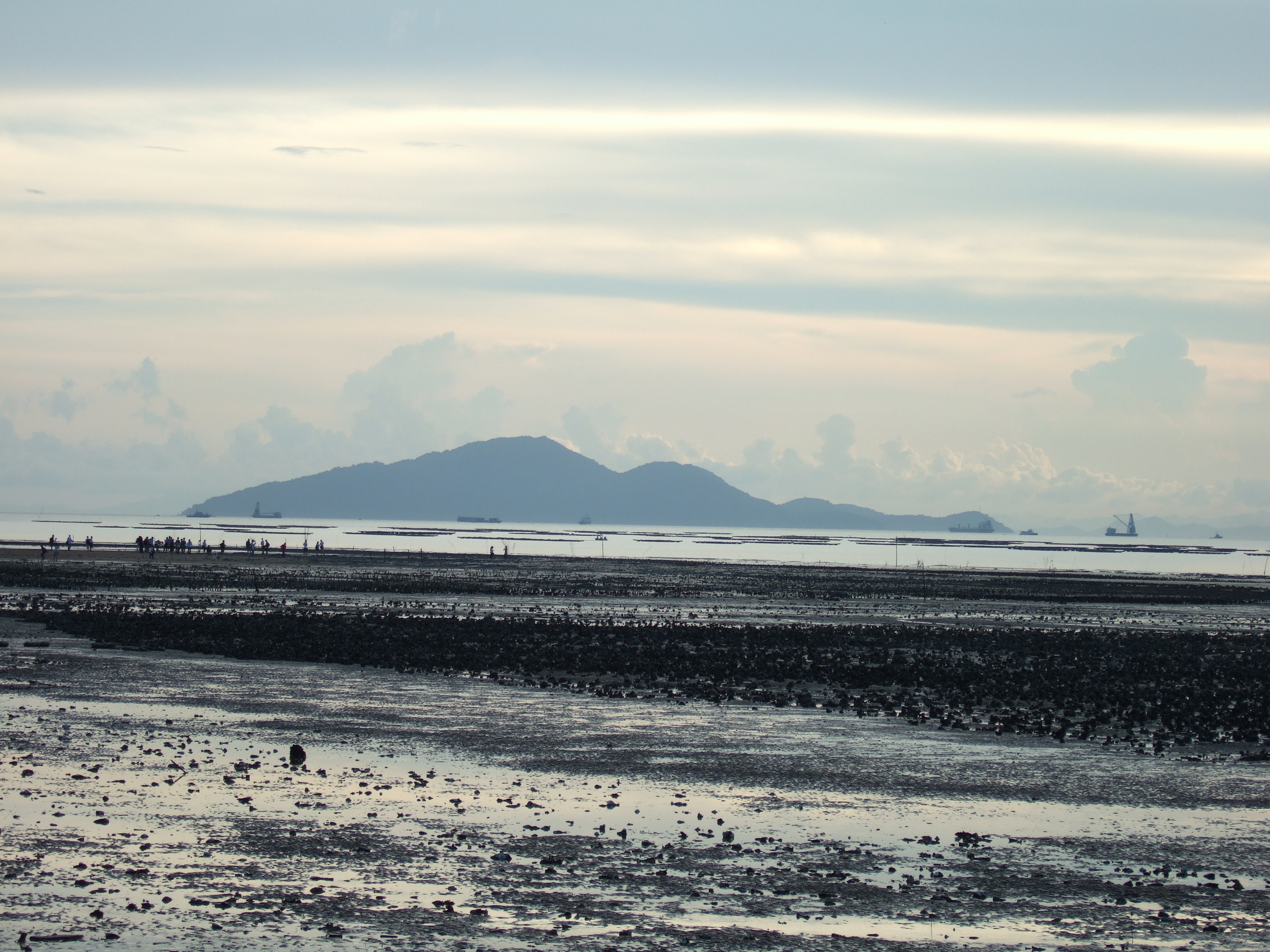 Photo of Nei Lingding Island